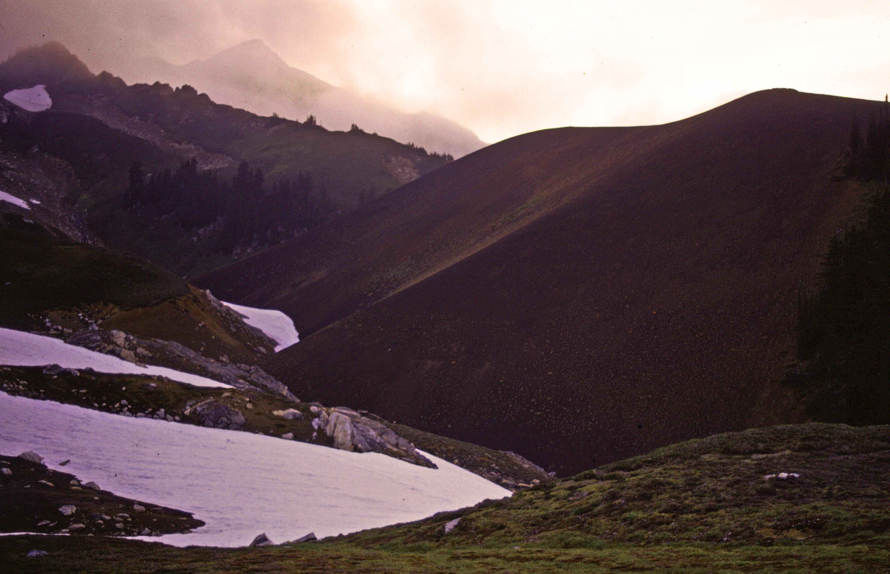 White Chuck cinder cone late afternoon